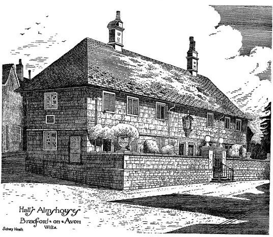 From: OLD ENGLISH HOUSES OF ALMS A Pictoral Record With Architectural and Historical Notes by SIDNEY HEATH London Francis Griffiths 34, Maden Lane, Strand, W.C. 1910 page 109